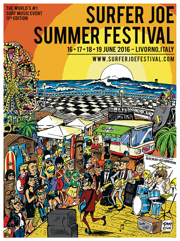 Poster of Surfer Joe Summer Festival 2016 by Tommaso Eppesteingher